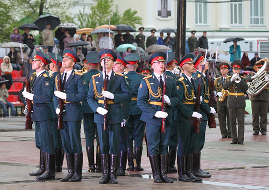 Военные музыканты ВВО начали подготовку к Международному военно-музыкальному фестивалю «Амурские волны»